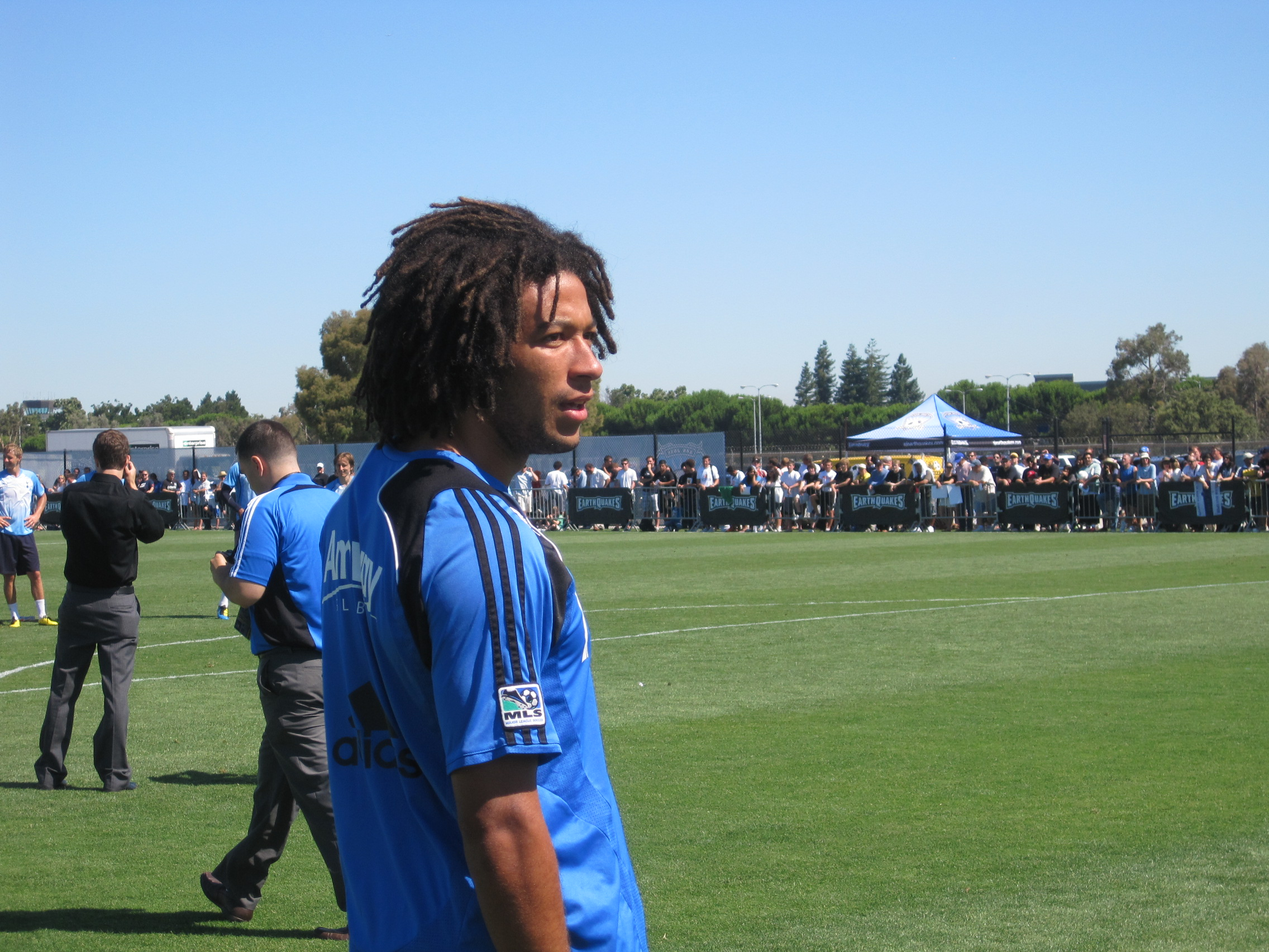 Justin Morrow of the San Jose Earthquakes